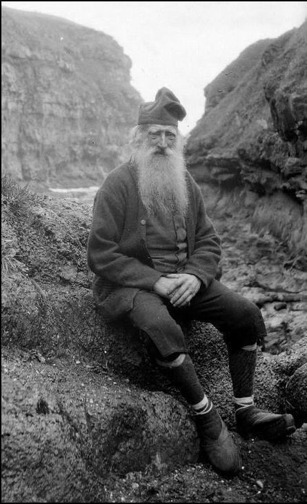 Joen (Jógvan) Danielsen, born 1843, died 1926, was a Faroese poet. The Faroese ballad (kvæði) Kópakvæði (The Seal Woman) is one of his best known poems/songs.